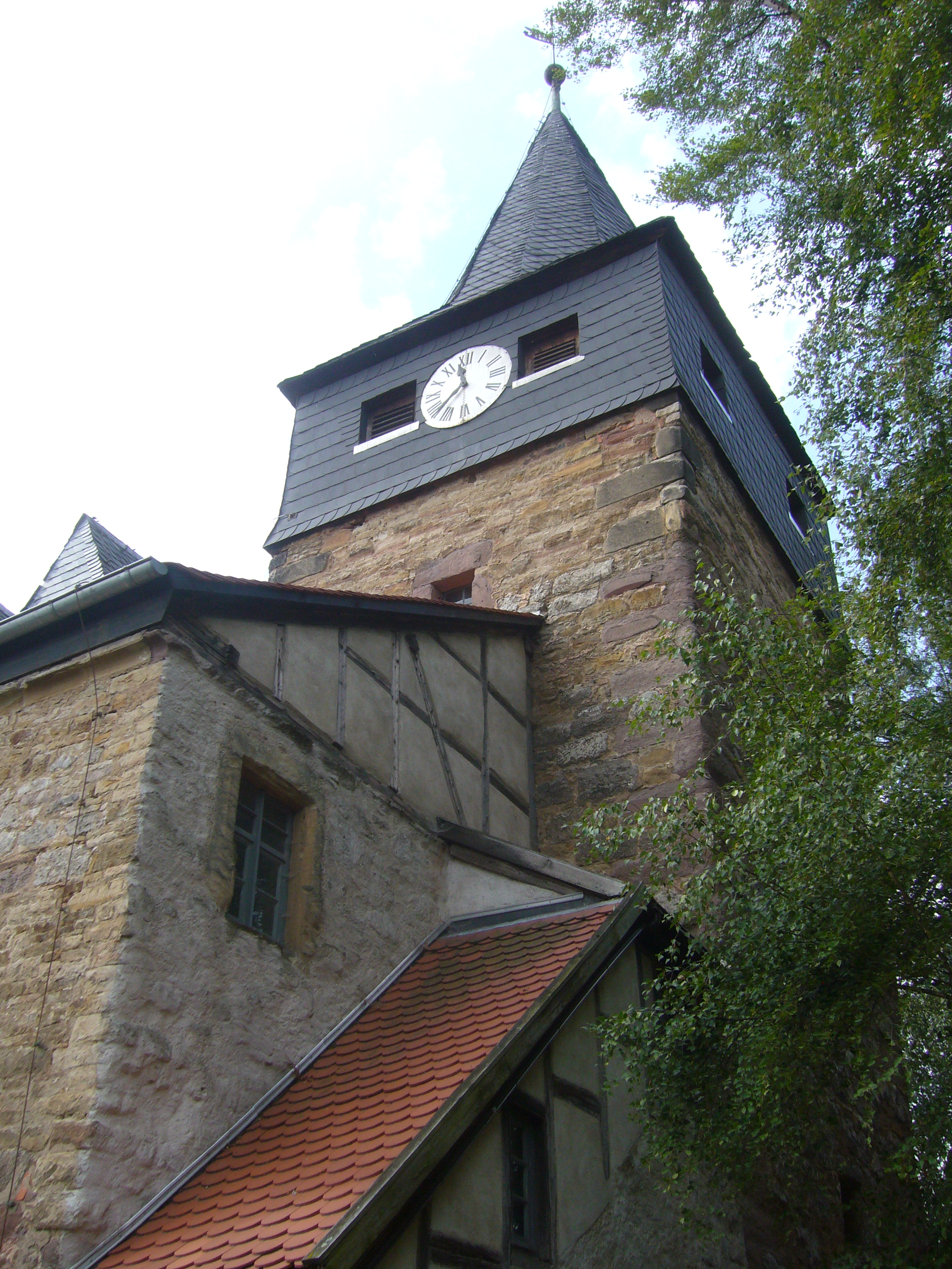 Church in Voigtstedt, Kyffhäuserkreis, Thuringia, Germany